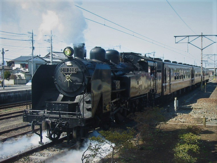 C11 325 from Oyama at Shimodate Stn.